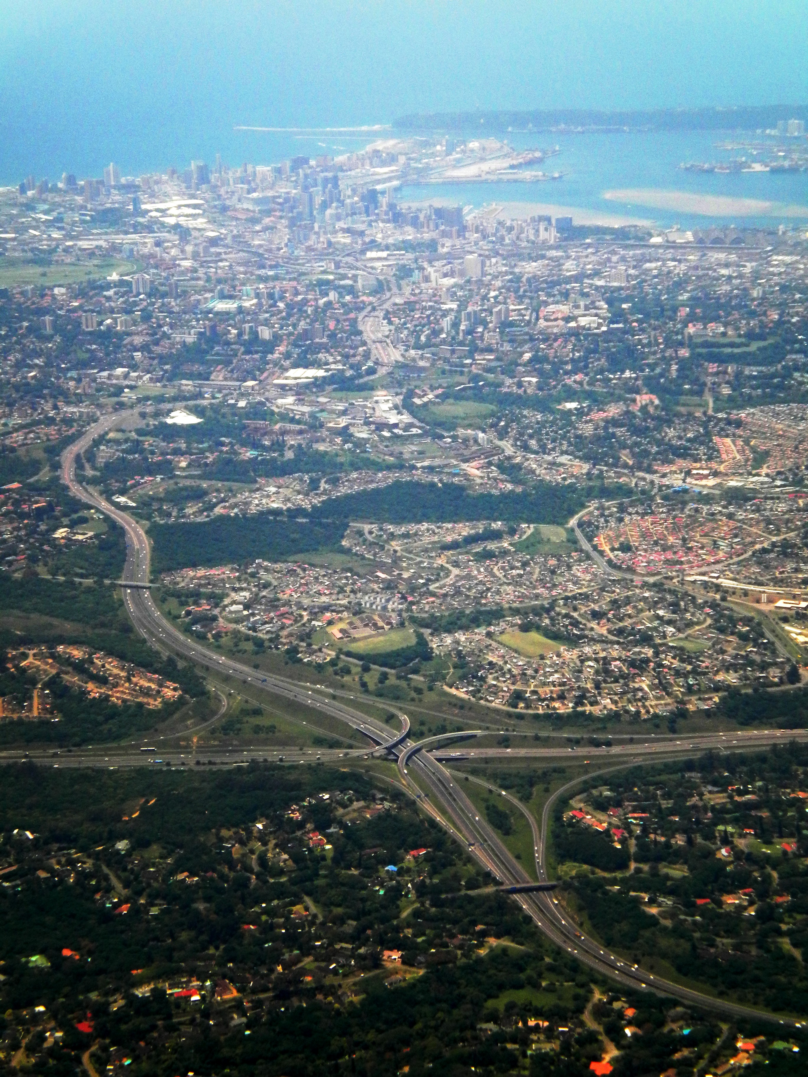 N3 Freeway on its final approach into Durban, Spaghetti Junction (N3-N2) in foreground